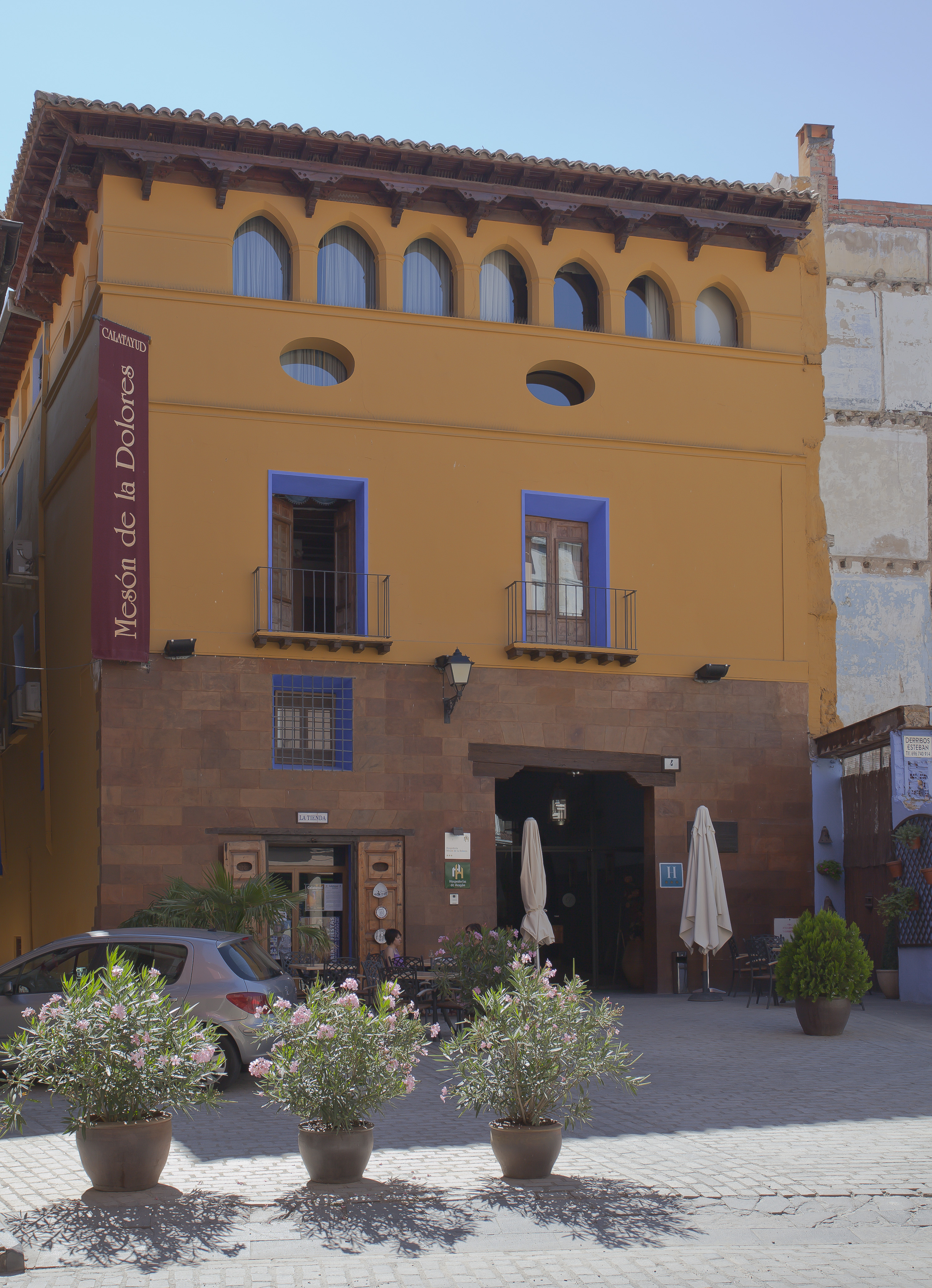 Mesón de la Dolores, Calatayud, Spain